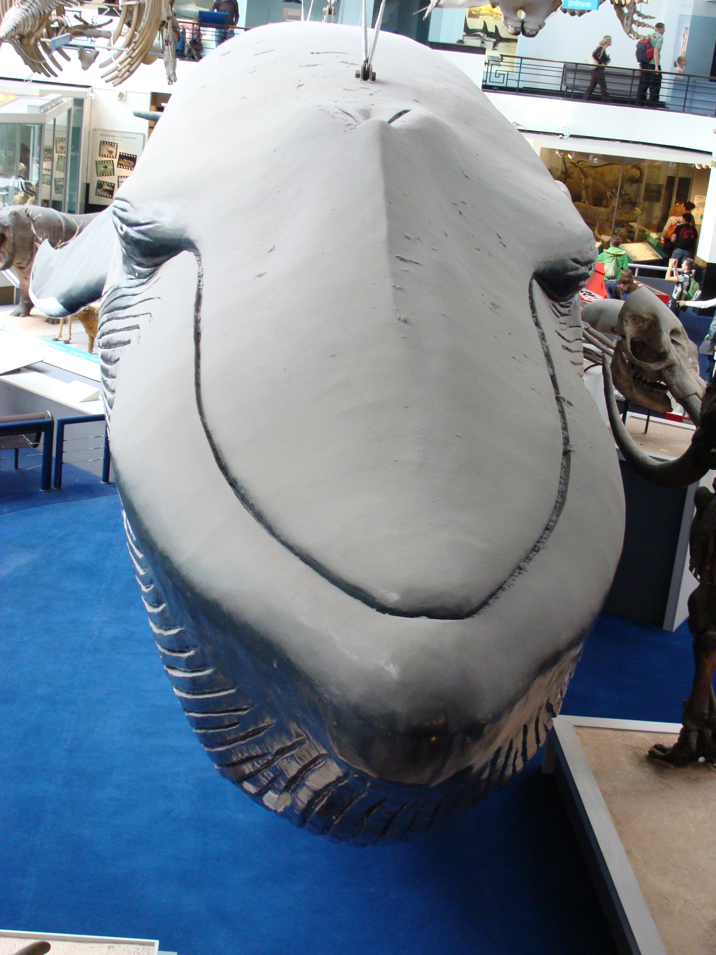 Balaenoptera musculus (replica) (Blue Whale) in the Natural History Museum of London